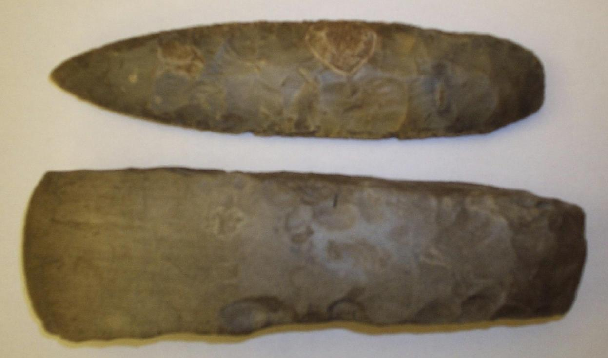 A Neolithic flint dagger and a Neolithic flint axe from Denmark. Photo taken at Göteborg museum in October 2005 by Harri Blomberg.